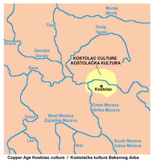 Copper Age Kostolac culture.